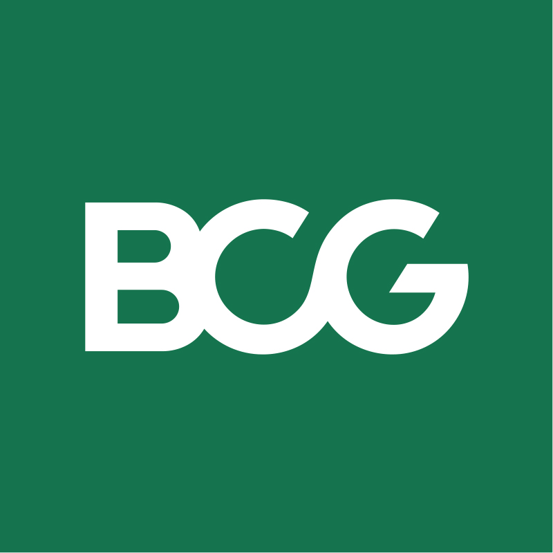 Boston Consulting Group corporate logo